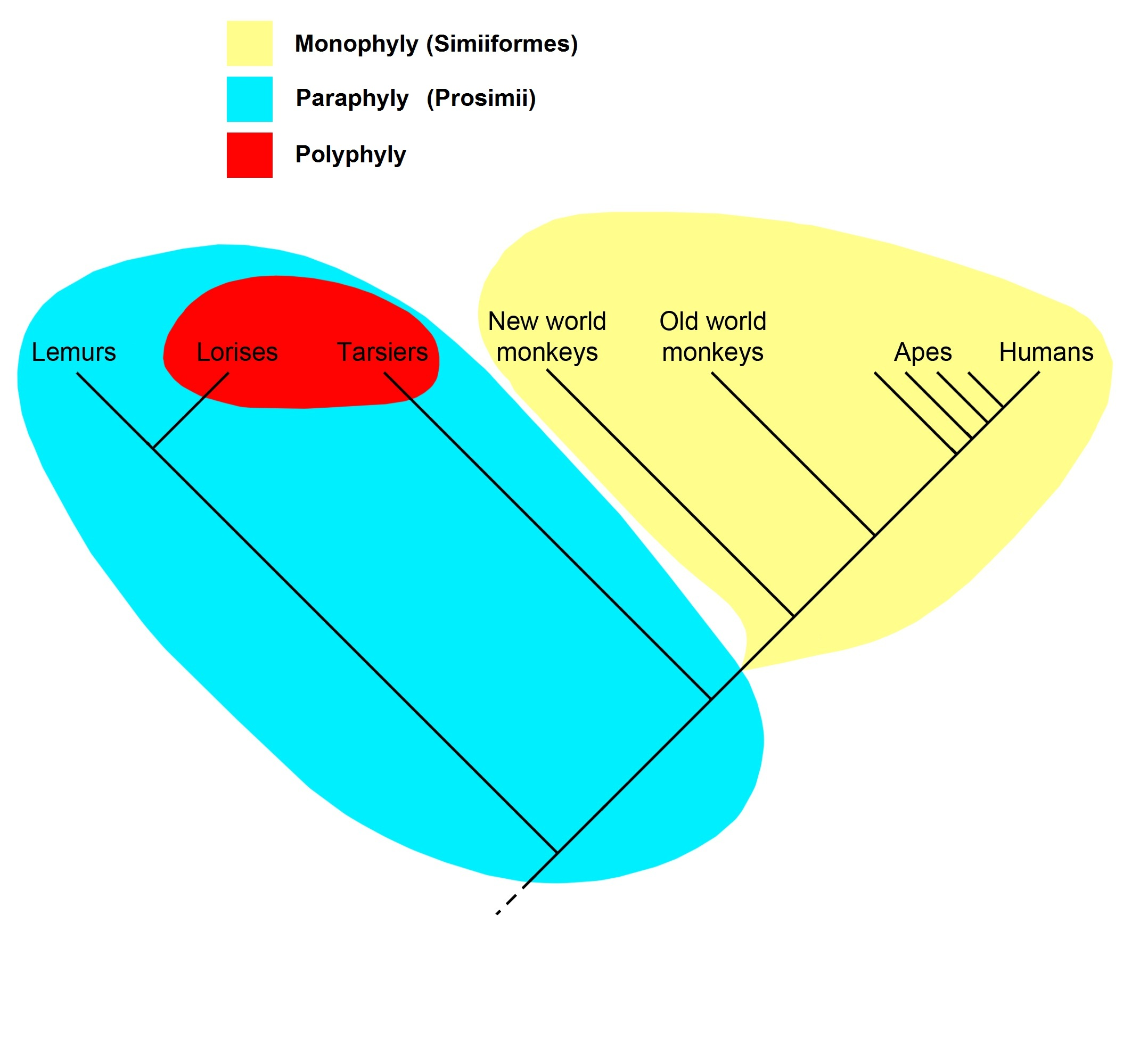 A cladogram of the primates with groups showing different phylogenetic units: Monophyly (Simiiformes), paraphyly (Prosimii) and polyphyly (the night active primates, the lorisis and the tarsiers).